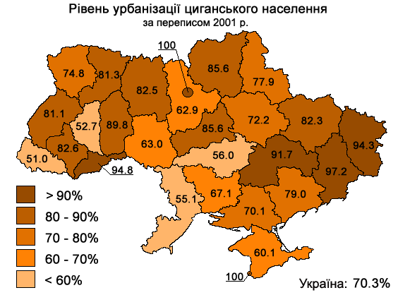 Urbanization rate of ukrainian roma population, 2001 census